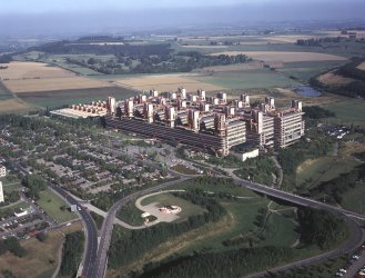 University hospital of the RWTH Aachen.